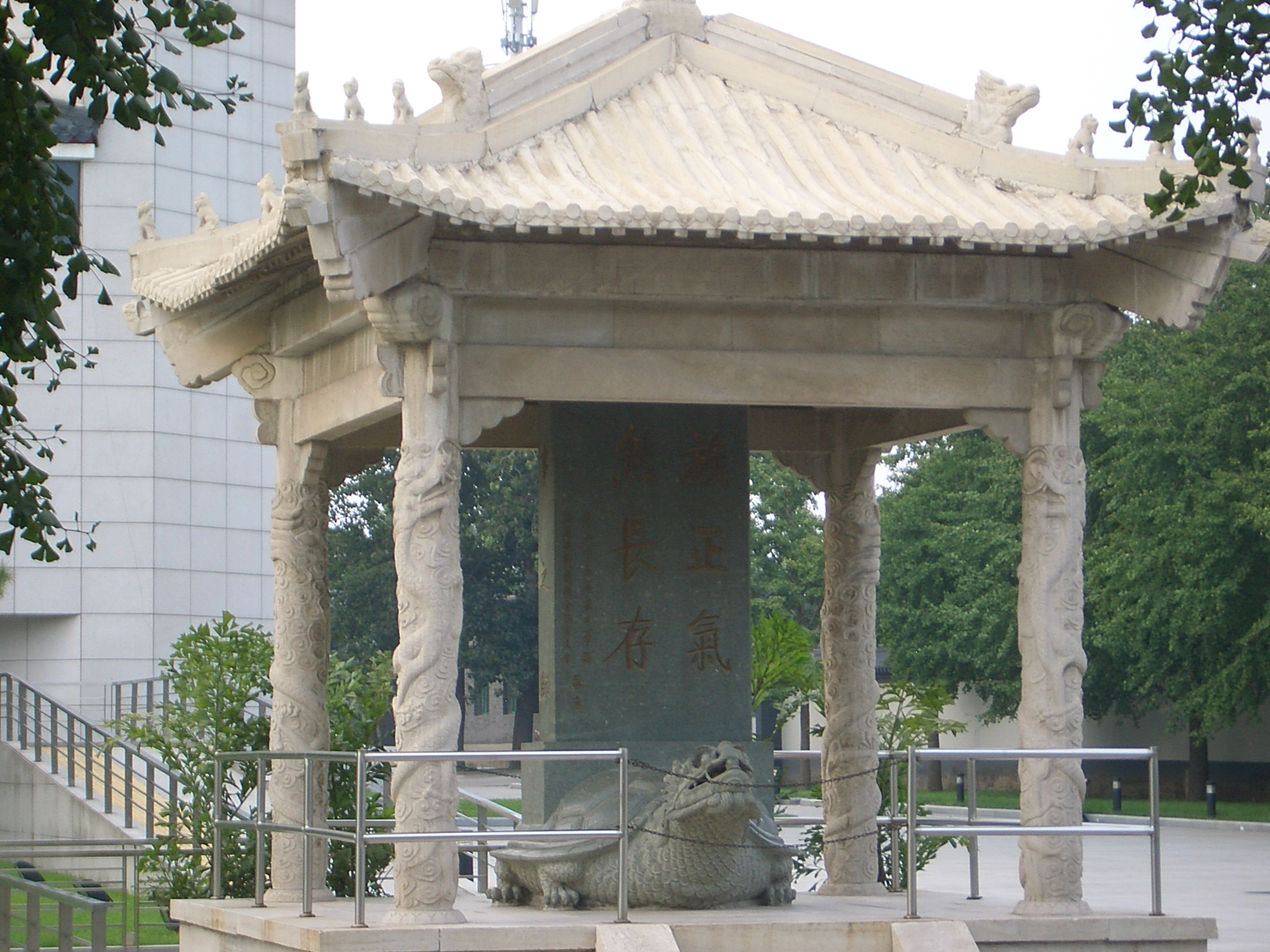 The bixi-supported stele with the inscription "民族正气浩然长存" ("People's Righteousness Will Abide", or something like this) on the grounds of the Memorial Hall of the Chinese People's War of Resistance Against Japanese Aggression, inside Wanping Fortress, Beijing.